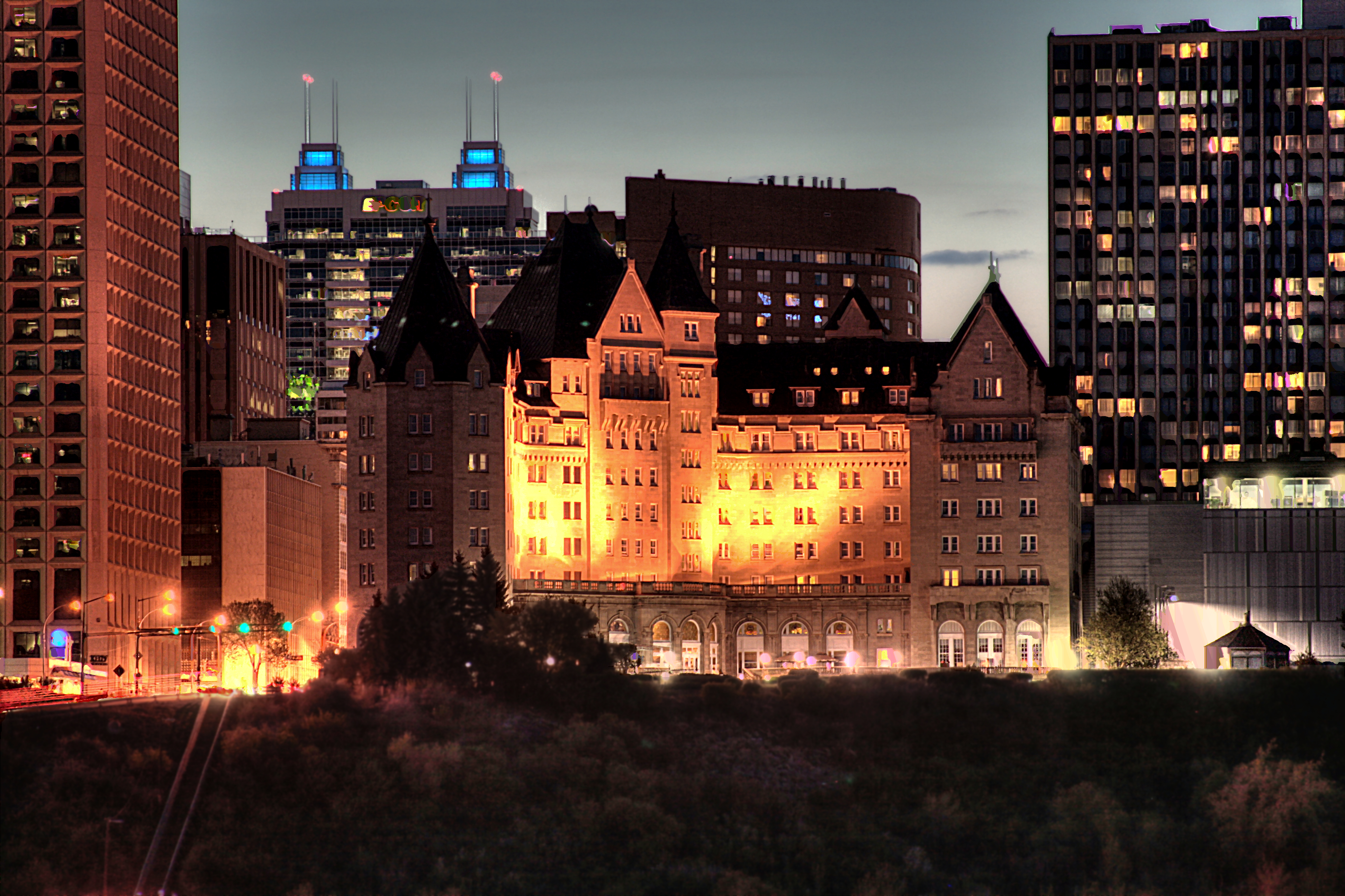 The south face of the Hotel Macdonald in Edmonton, Alberta, Canada.